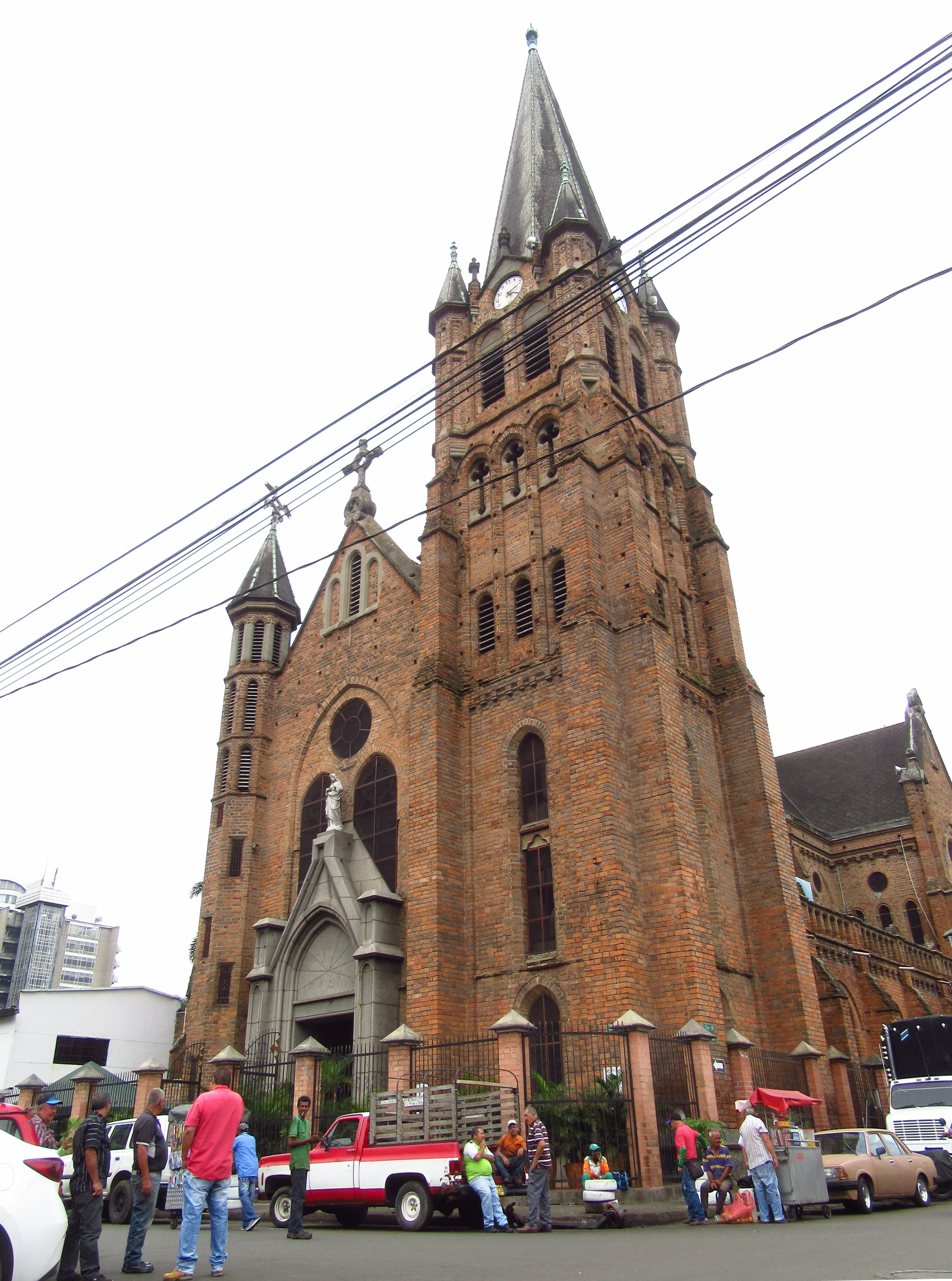 Medellín